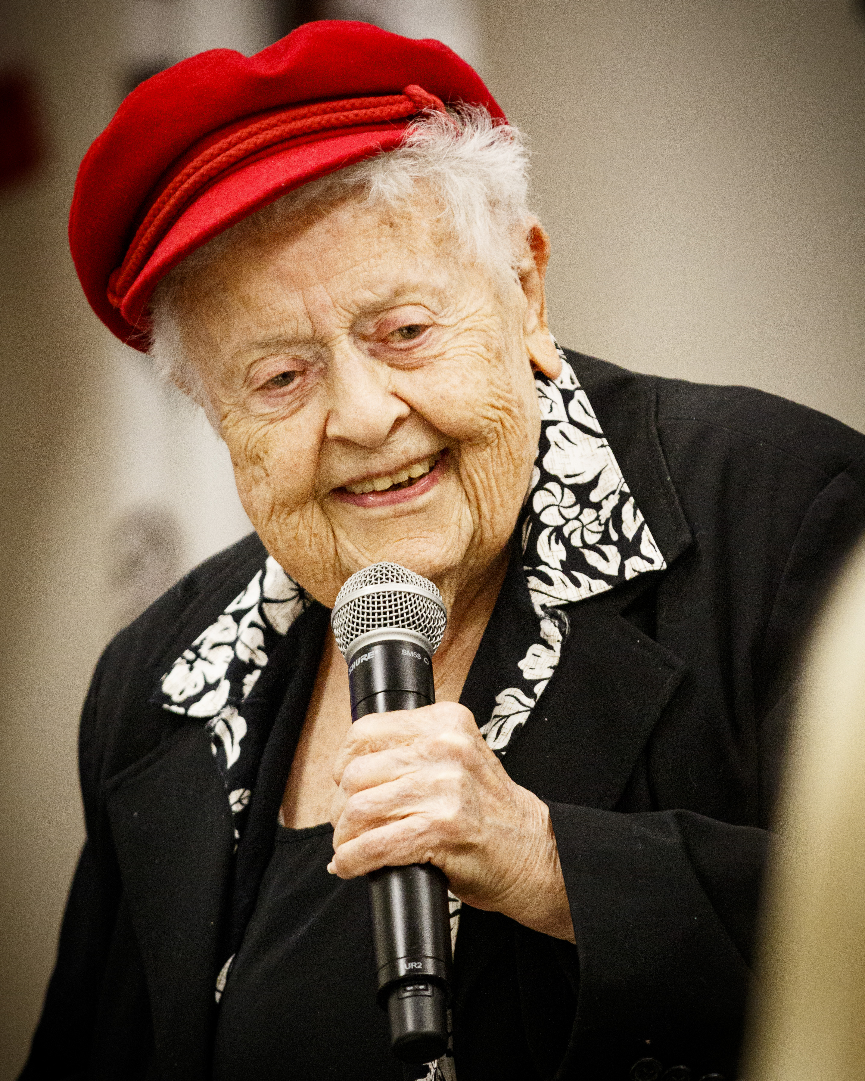 Lesbian activist Ivy Bottini speaking at Stonewall Democratic Club January 28 2019